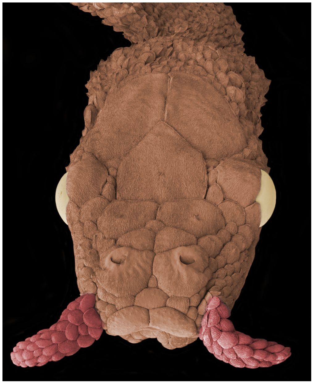 The unusual anatomy of the tentacled snake's (Erpeton tentaculatus) head under the scanning electron microscope.